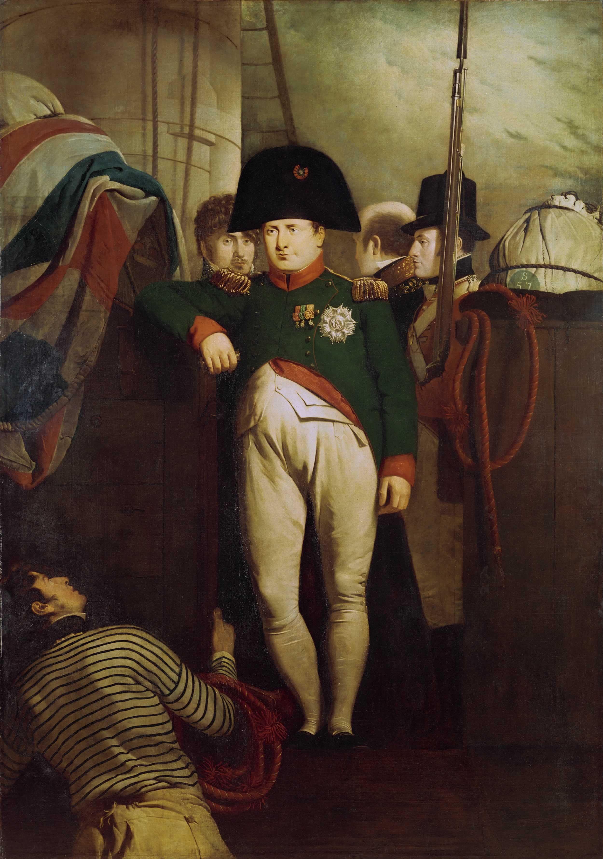 Napoleon Bonaparte on Board the 'Bellerophon' in Plymouth Sound, oil on canvas Full length portrait of Napoleon in the uniform of the Chasseurs, standing at the gangway of HMS Bellerophon, his right elbow leaning on the bulwarks. Bonaparte had surrendered to Captain Frederick Lewis Maitland of the Bellerophon and been transported to England.